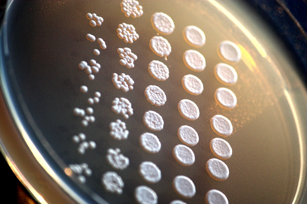 Drop-inoculation of laboratory baker´s yeast (Saccharomyces cerevisiae) mutants on agar plate. The assay called "frogging" compares the viability of different yeast mutants.